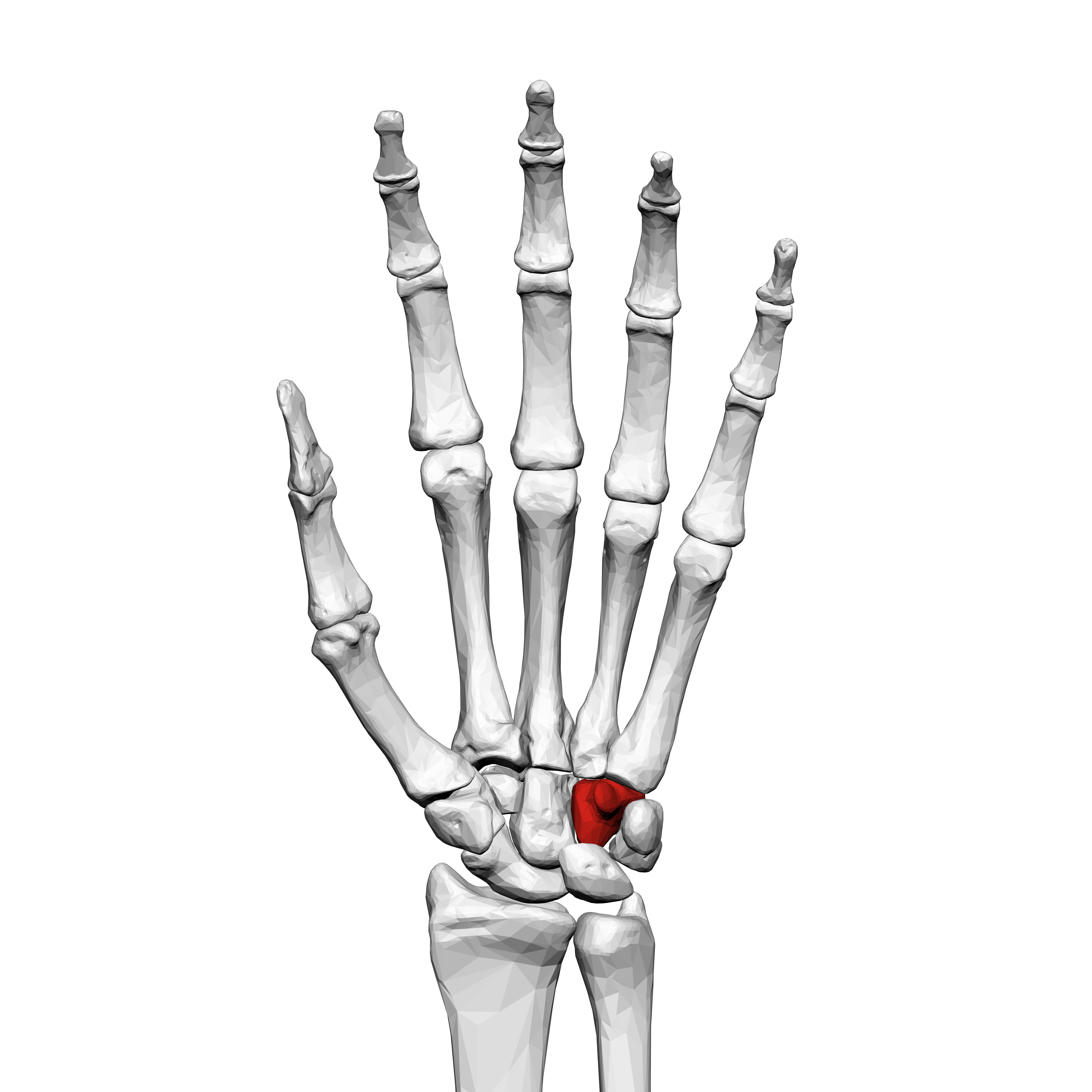 Hamate bone (shown in red).